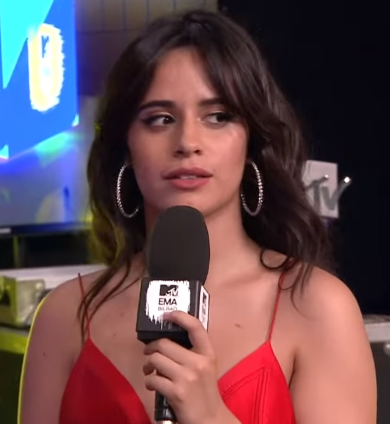 Here is the interview that you didn't get to see on the MTV EMAs 2018, Camila Cabello's feelings on presenting the award to Global Icon Janet Jackson!